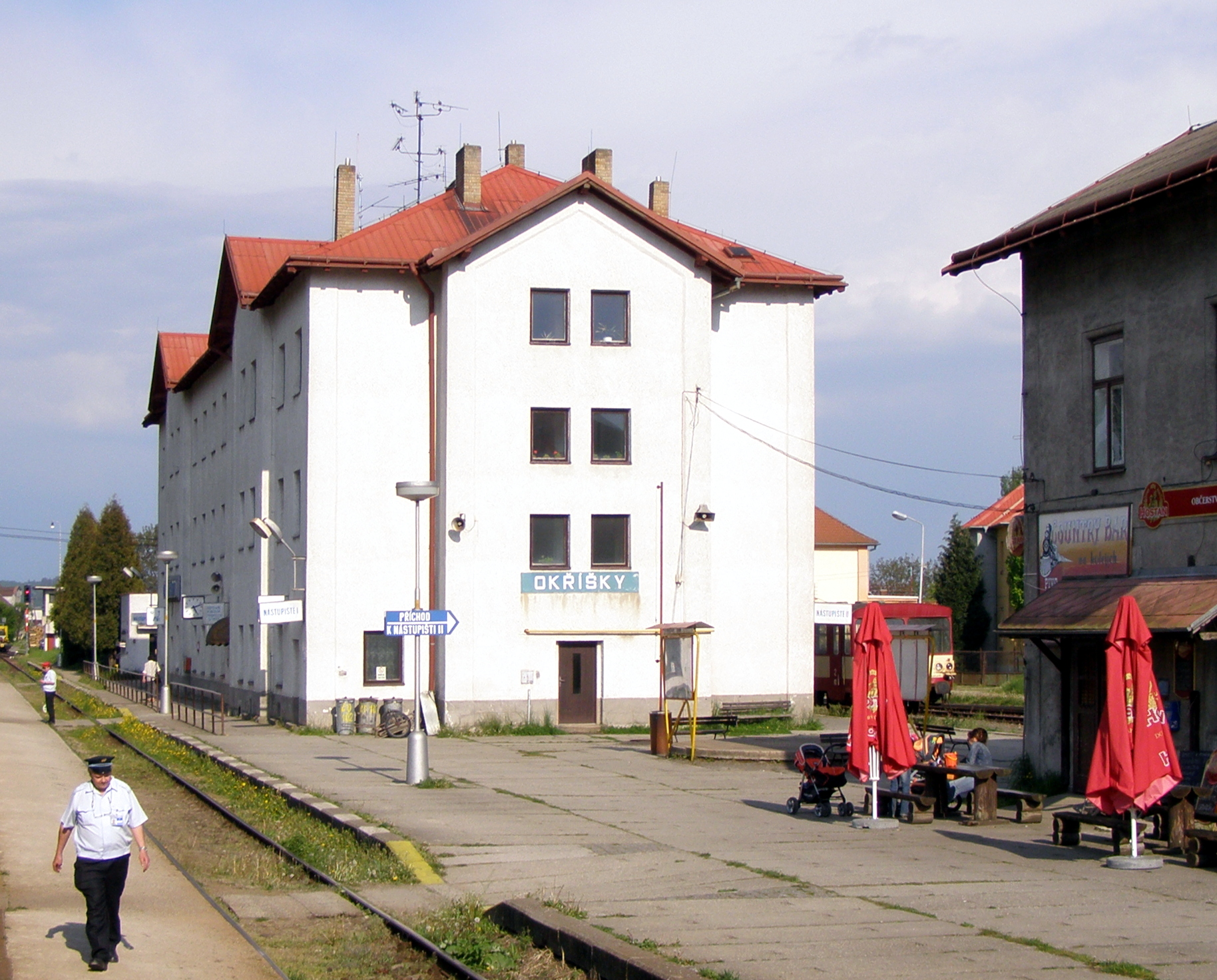 Okříšky. Railway station Okříšky. Railway line 240 and railway line 241 junction